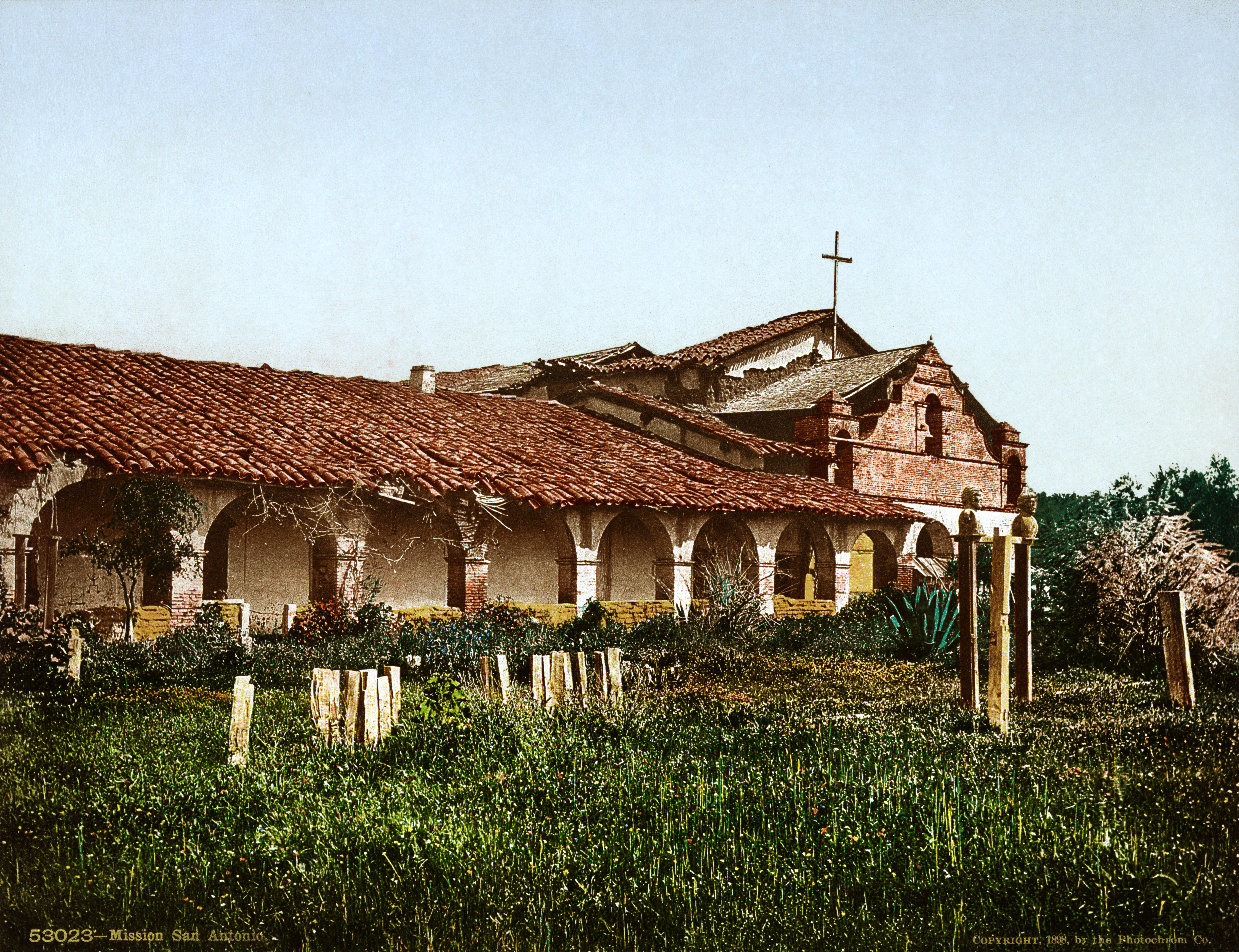 53023. Photochrom print of Mission San Antonio de Padua.